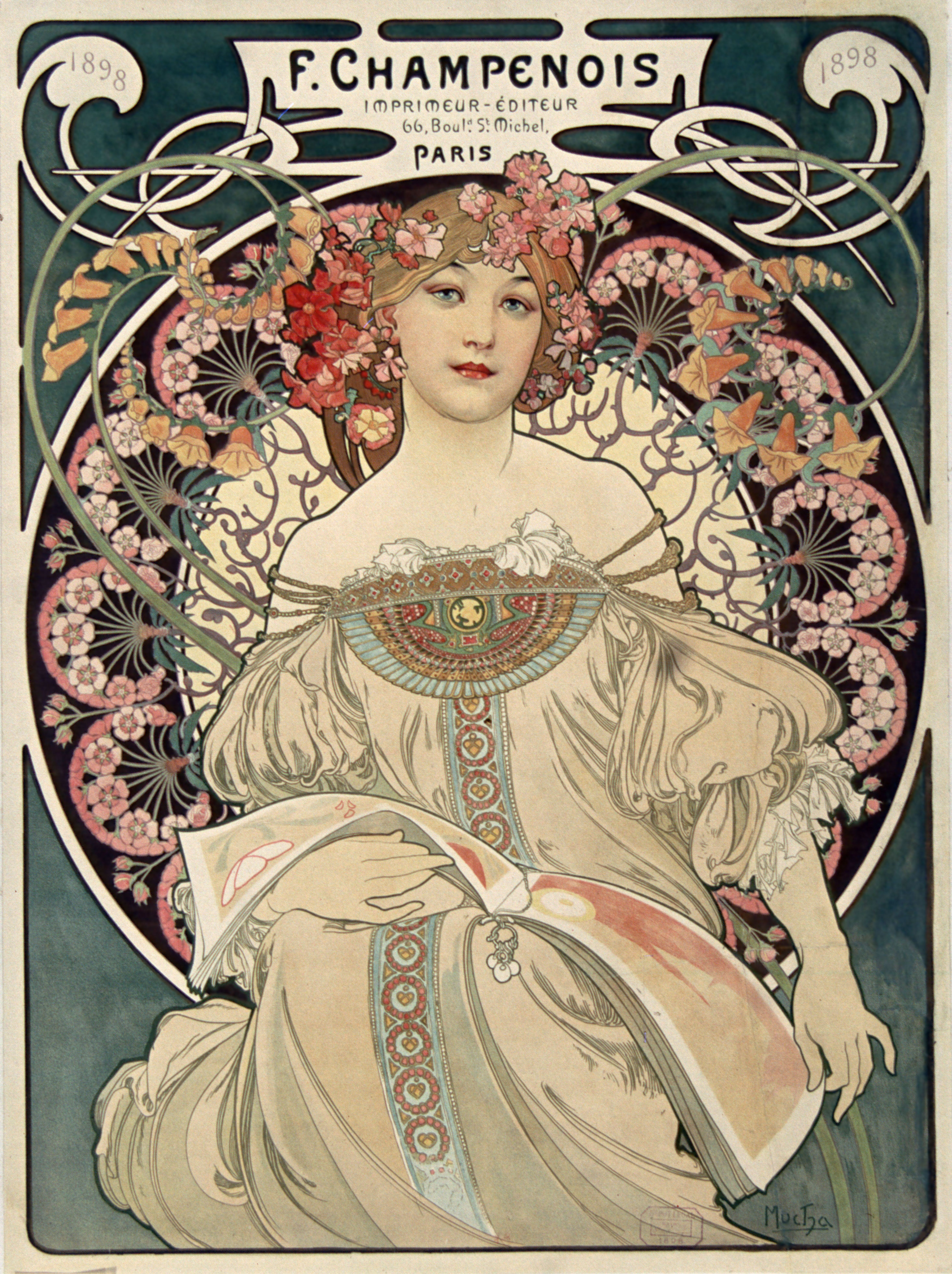 F. Champenois Imprimeur-Editeur, by Alphonse Mucha. Lithography, colors; 67 x 49 cm.